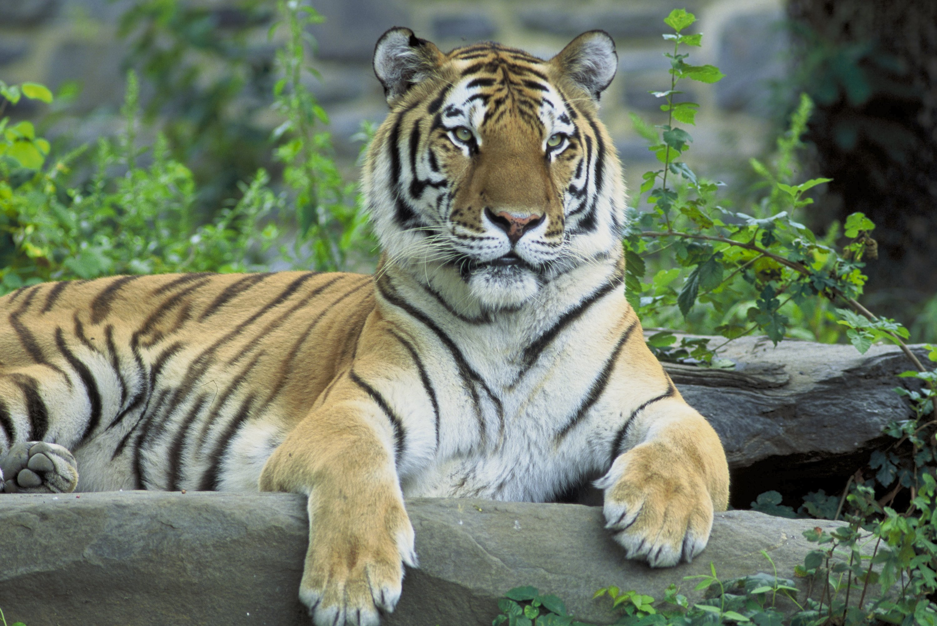 Siberian Tiger in the Philadelphia Zoo, WO8002-33F